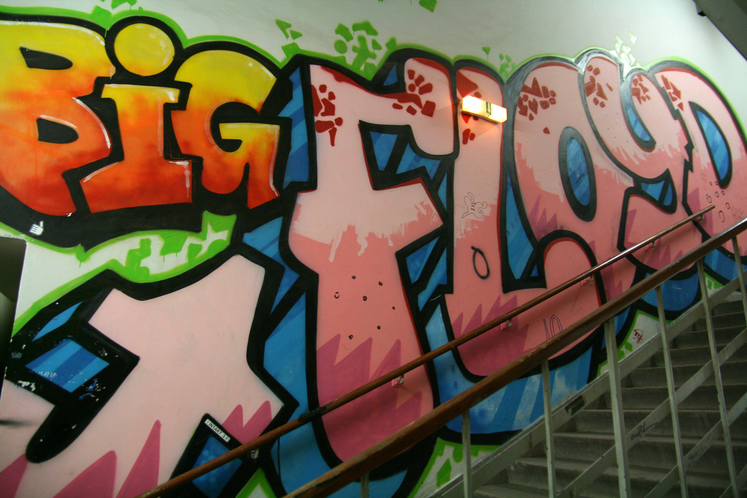 Graffiti inside the cultural center WUK in Vienna.